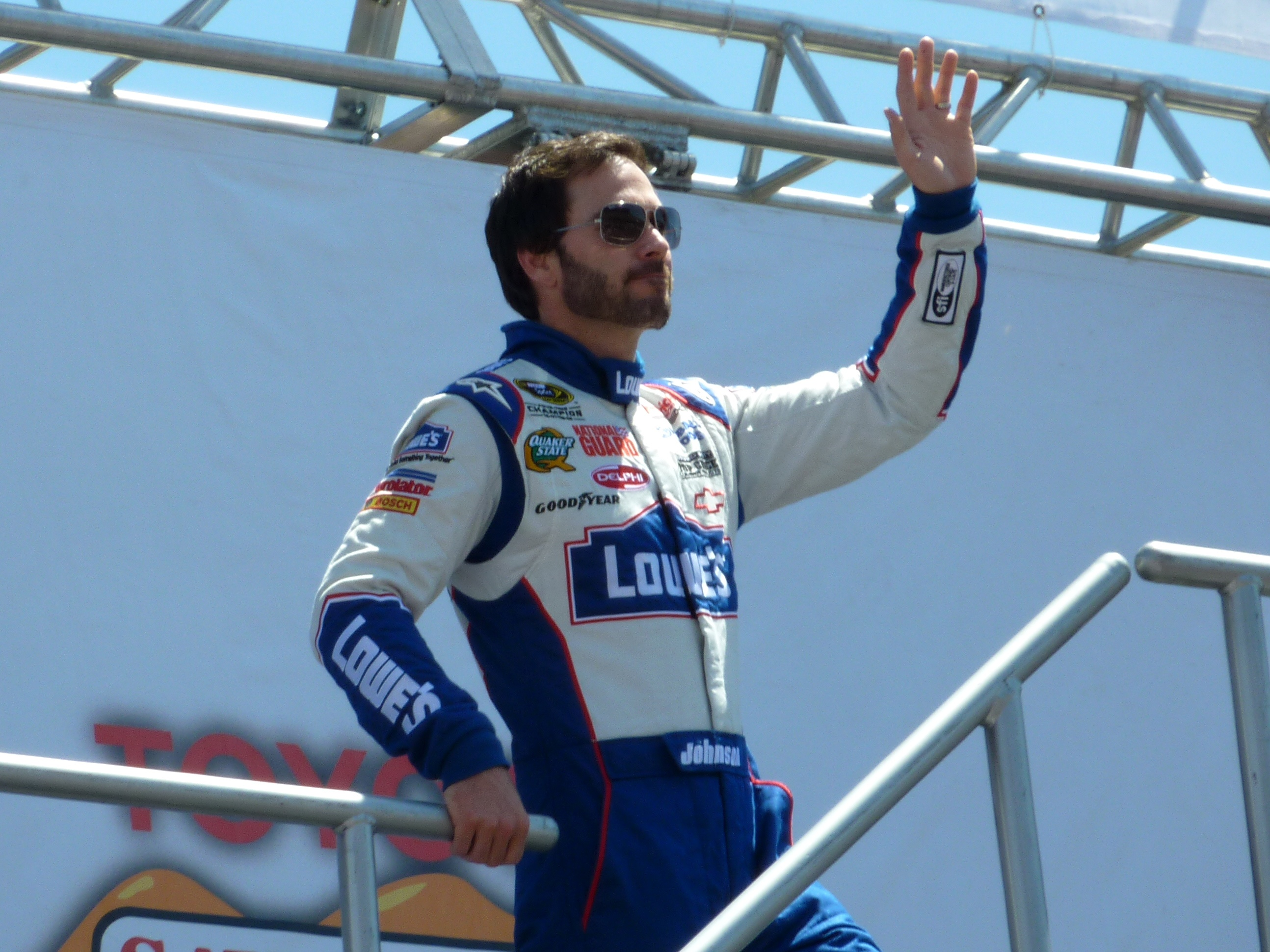 Jimmie Johnson during driver introductions before the Toyota/Save Mart 350 at Infineon Raceway in 2010. Johnson would later win the race.